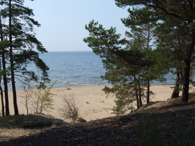 Beach of the Baltic Sea at Pabazi, a district of Saulkrasti, Latvia